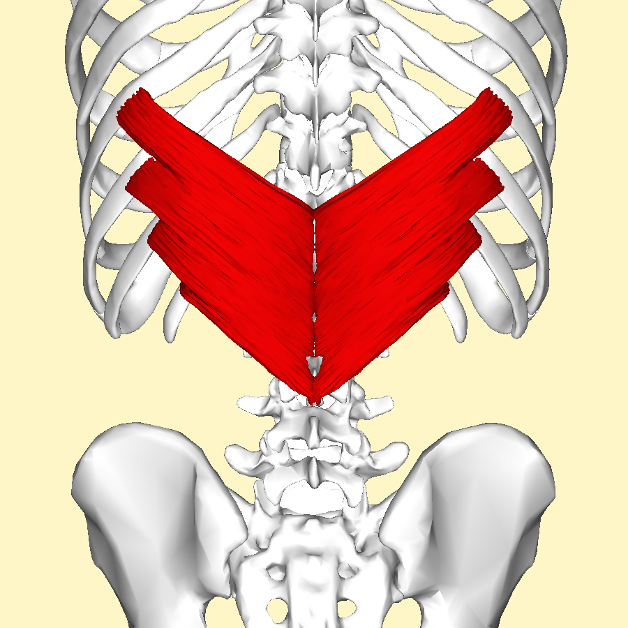 Serratus posterior inferior muscle (shown in red).